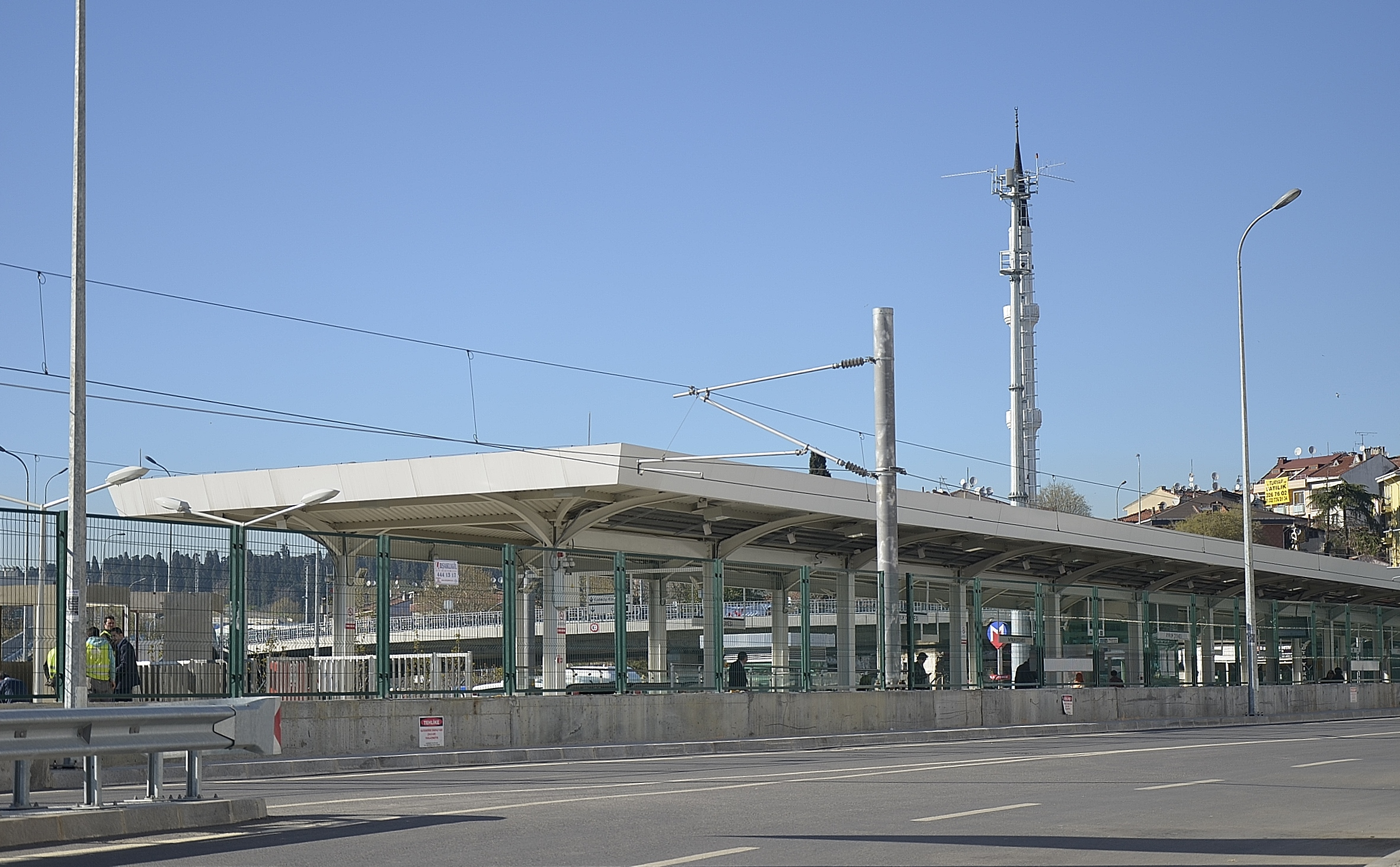 Ayrılıkçeşmesi Marmaray Station, Kadıköy, Istanbul